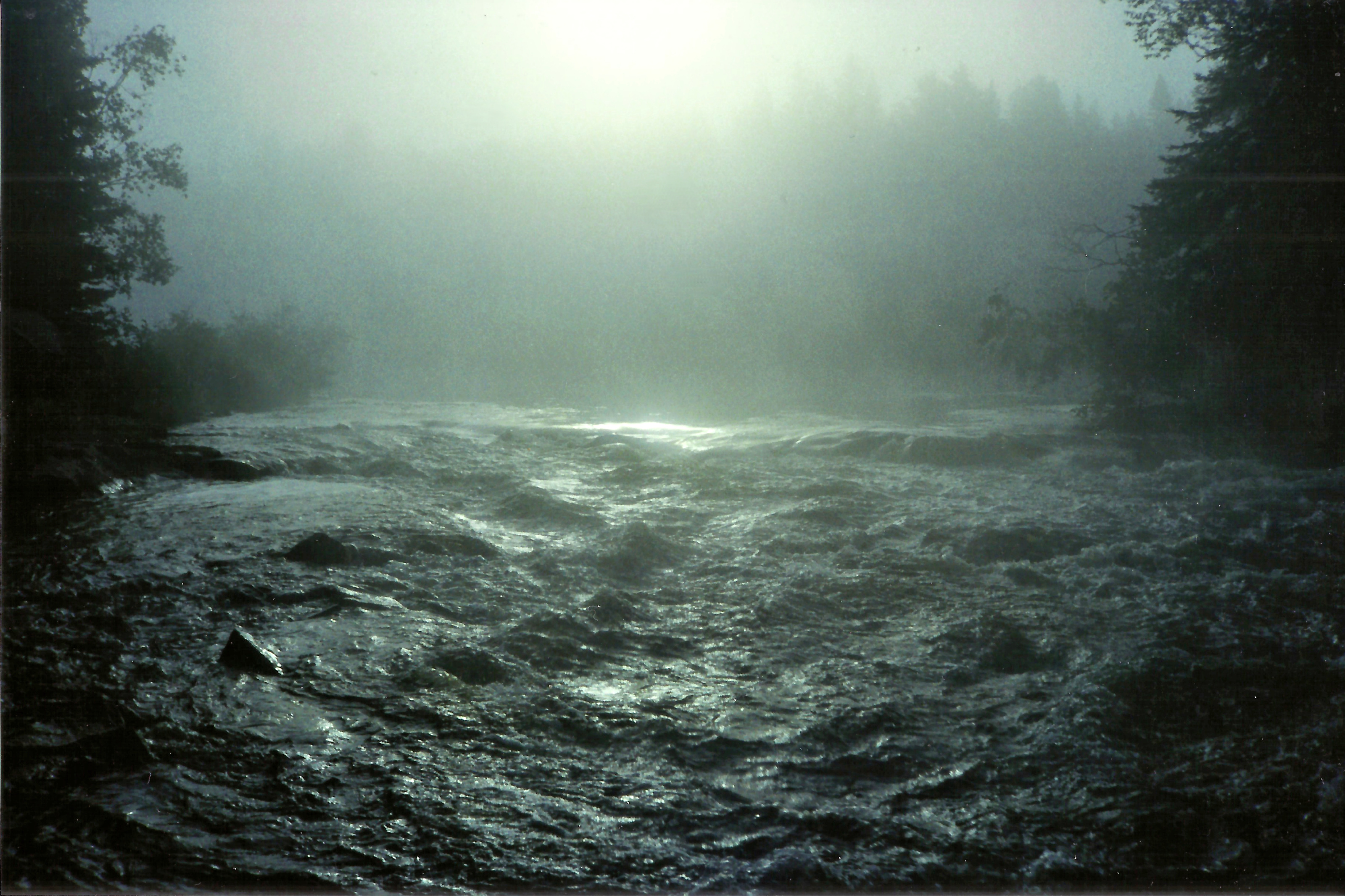 Morning mist on the upper Coulonge River, Quebec, Canada